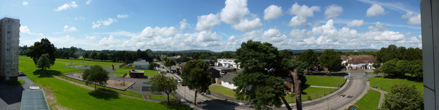 Looking toward Castel Coch View from Lydstep Crescent toward Castel Coch, Taffs Well In the centre of the photo with St Fagans in a line as the crow flies on your left. Rhiwbina in a line as the crow flies on your right